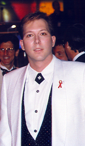 David L. Cook at the 1986 Grammy Awards.